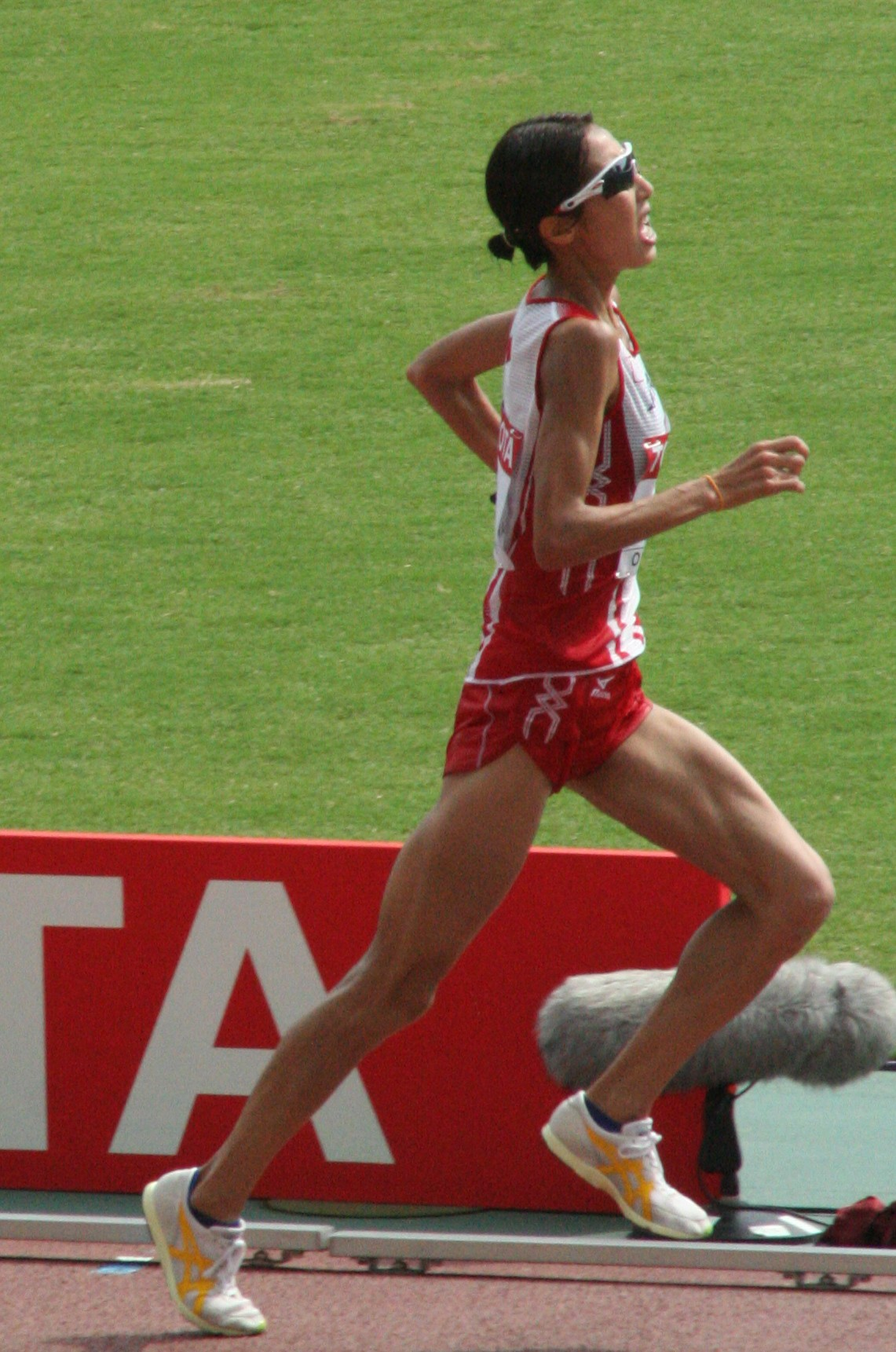 World Athletics Championships 2007 in Osaka - Bronze medal winner Reiko Tosa on the last 50 metres of her run.